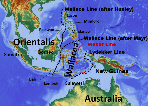 Wallacea Region Source=Base map derived from File:Relief World Map by maps-for-free.jpg. Data from Illies, J. (1972). Tiergeographie. 2. verbesserte Auflage, (Herausgeber: Edwin Fels, Ernst Weigt und Herbert Wilhelmy; Originalfassung: 1970). Georg Westermann Verlag, Braunschweig ISBN 3-14-160285-9